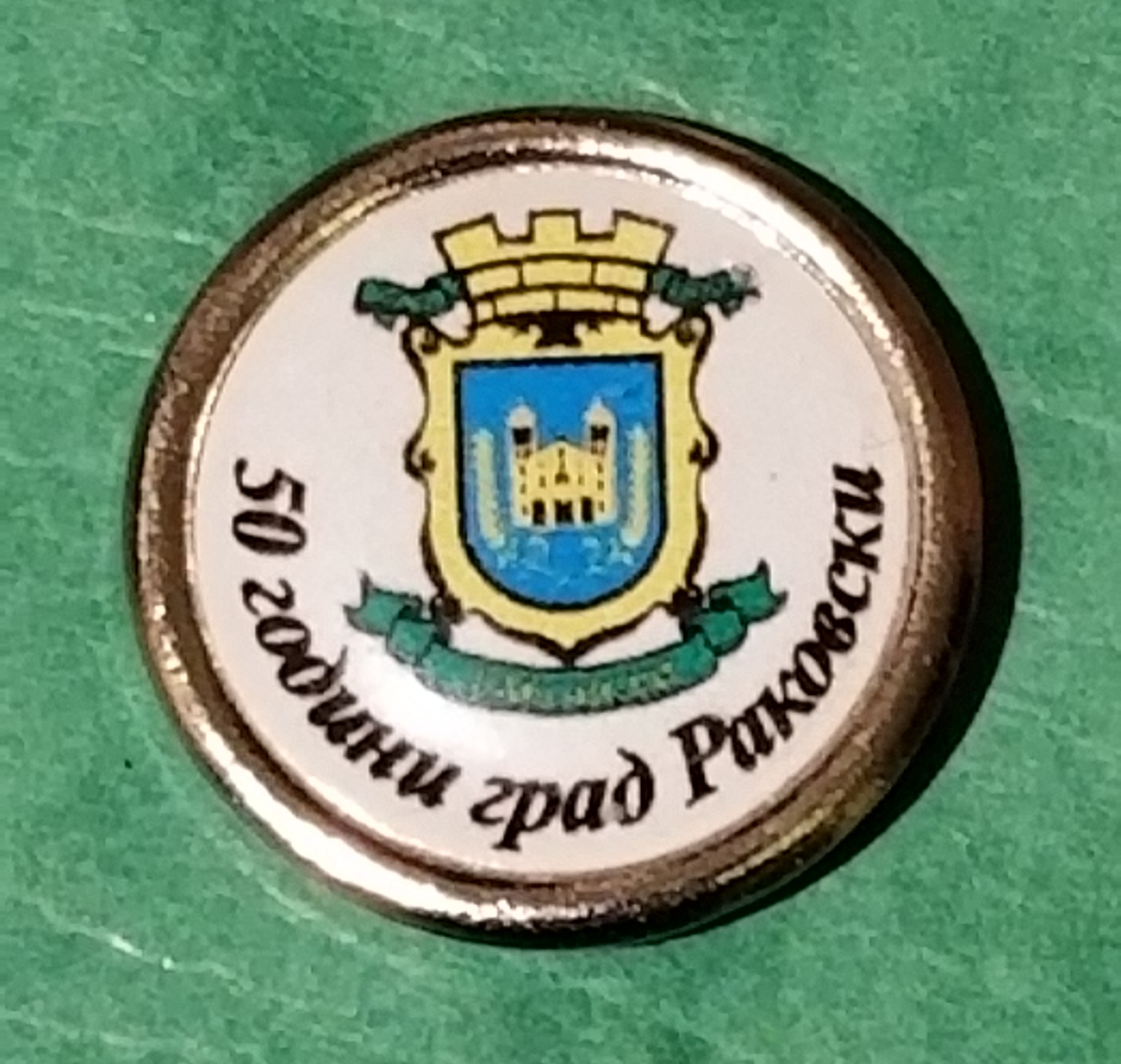 Jubilee badge 50 years since the founding of Rakovski town